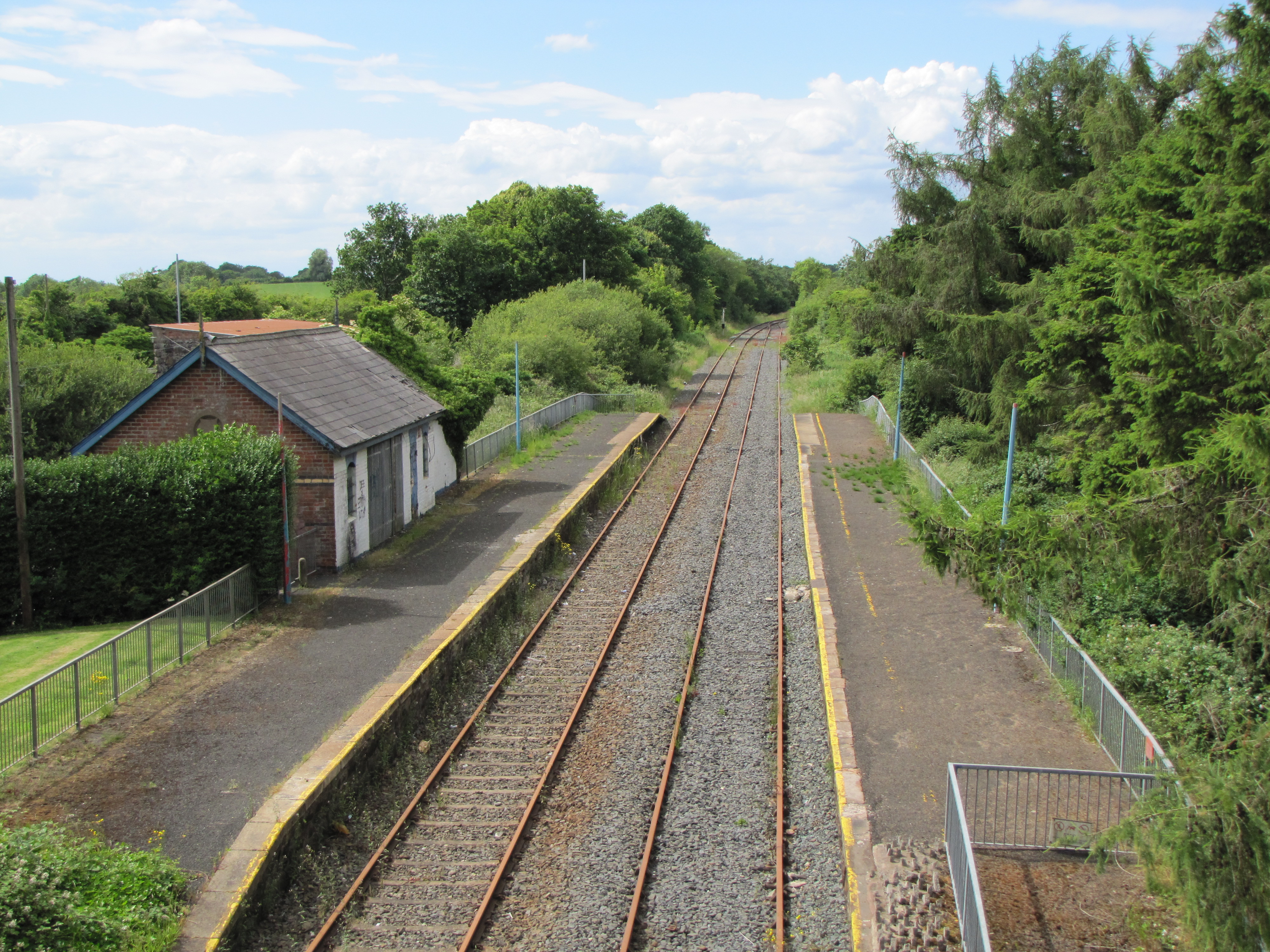 Ballinderry Railway Station from railway bridge